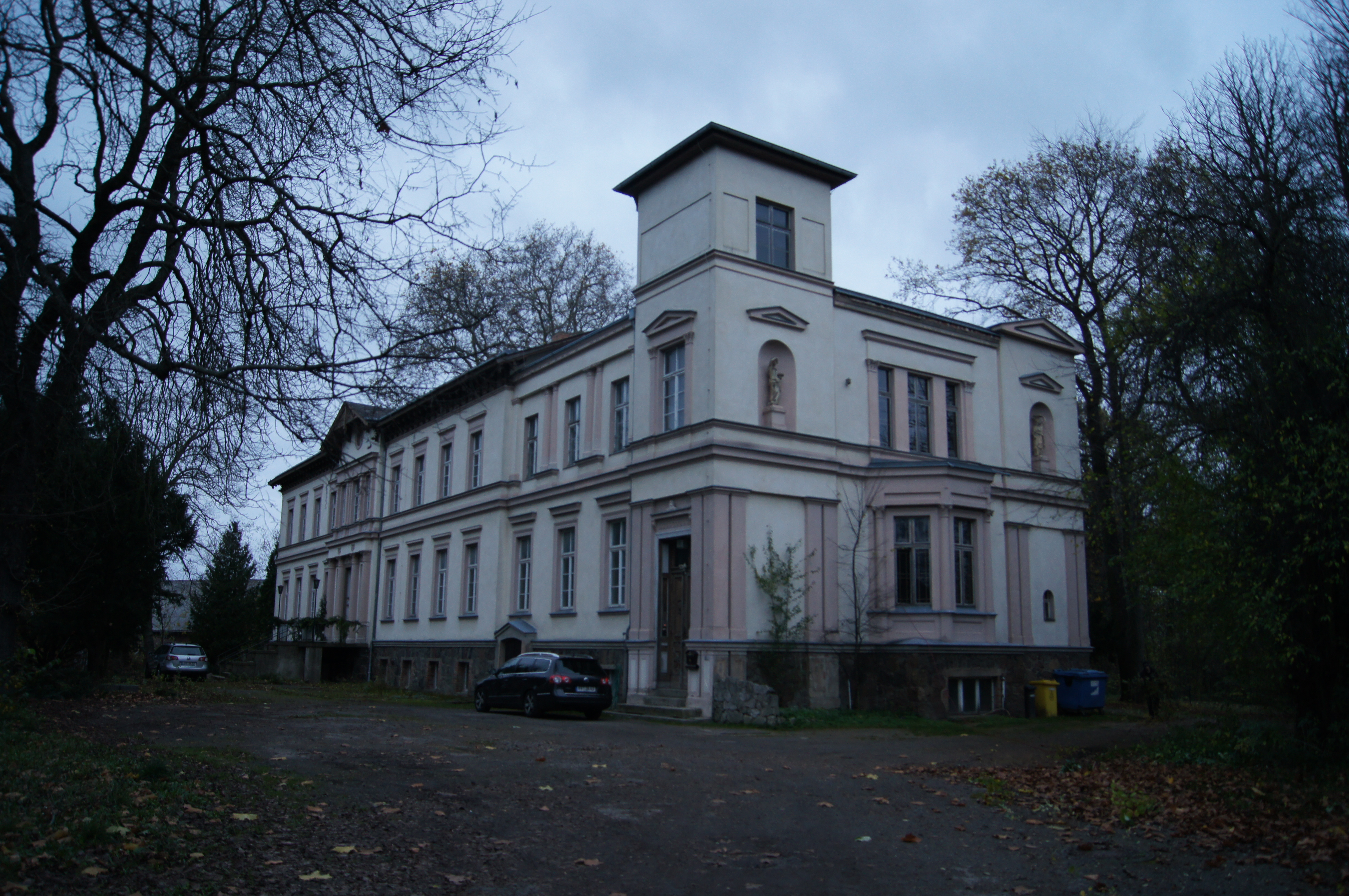 Manor house in Booßen, Frankfurt (Oder), Brandenburg, Germany